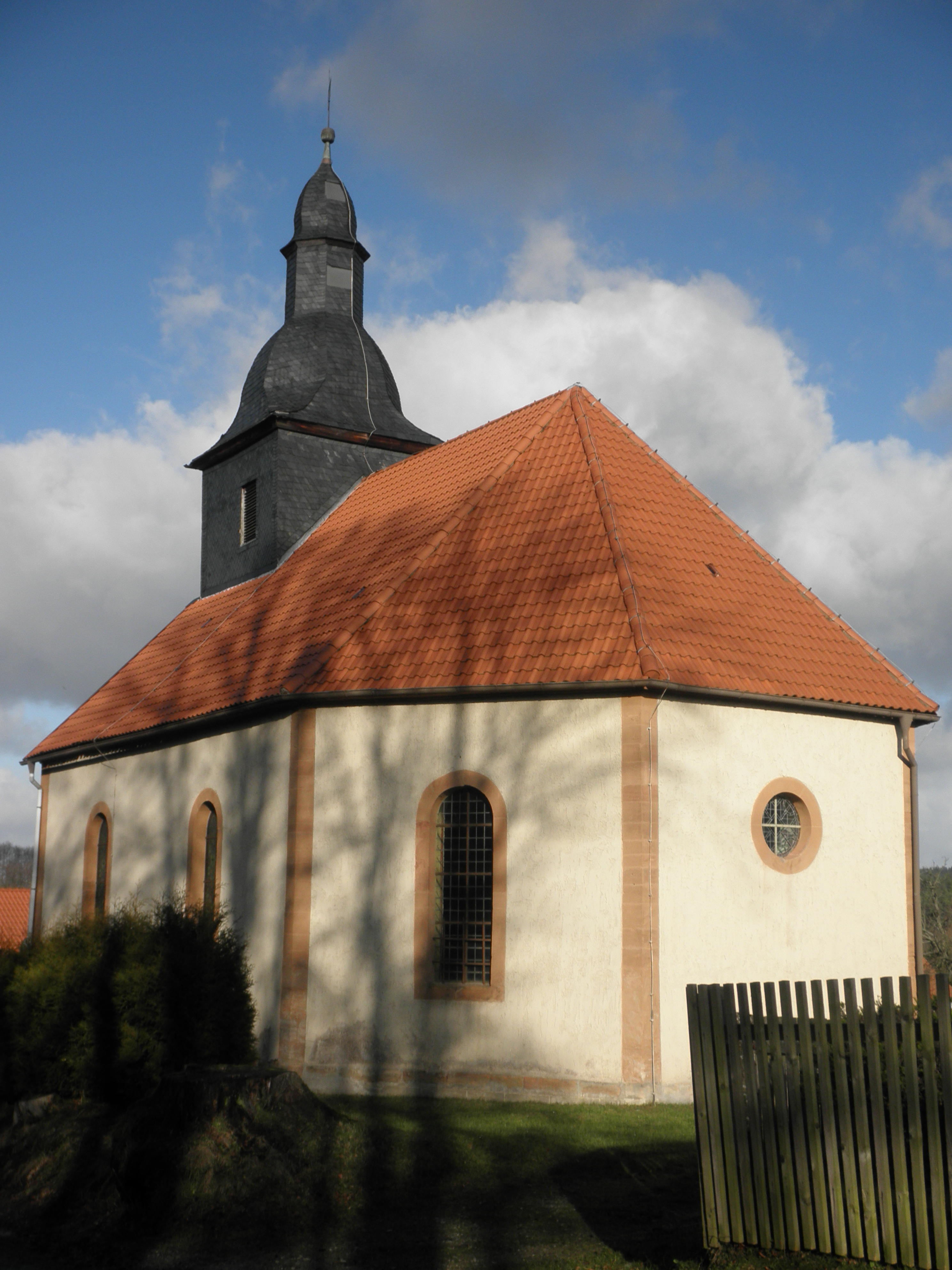 Church in Döringsdorf (Geismar) in Thüringen